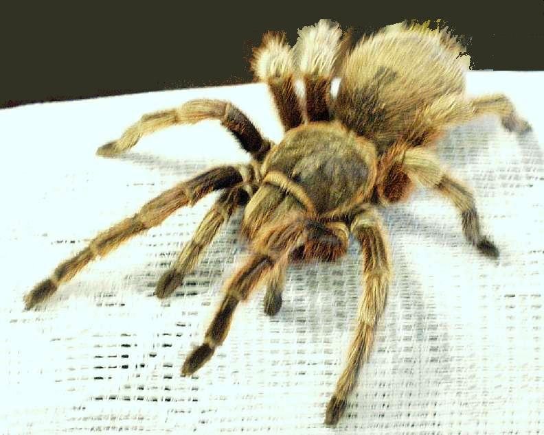 Grammostola rosea (rose tarantula), a kind of tarantula found in Chile.